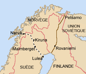 During the Winter War, Franco-British support was offered on the condition their armed forces be given free passage through neutral Norway and Sweden instead of taking the difficult passage through the Soviet-occupied Petsamo.